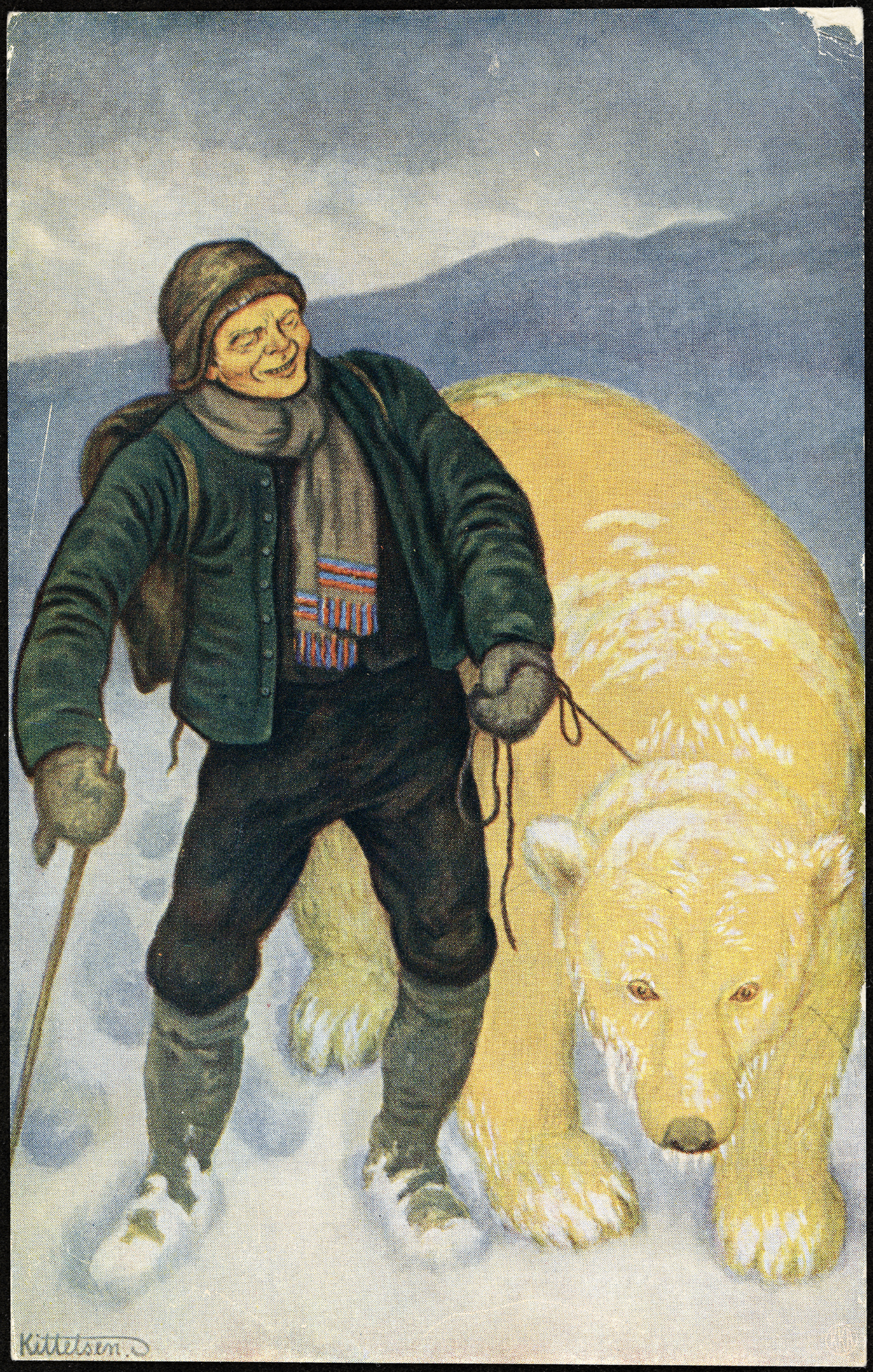 Tittel / Title: Th. Kittelsen: Jetten på Dovrefjell Motiv / Motif: Postkort. "Kjætten på Dovre". Flickr-tittel hentet fra originaltittel trykket på det utgitte kortet. Dato / Date: ukjent / unknown Kunstner / Artist: Theodor Kittelsen (1857-1914) Utgiver / Publisher: Mittet & Co. (nr 2) Eier / Owner Institution: Nasjonalbiblioteket / National Library of Norway Lenke / Link: Bildesignatur / Image Number: blds_04843